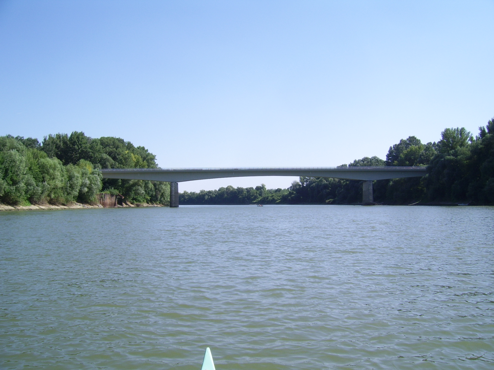 The Tisza-bridge between Szentes and Csongrád, Hungary